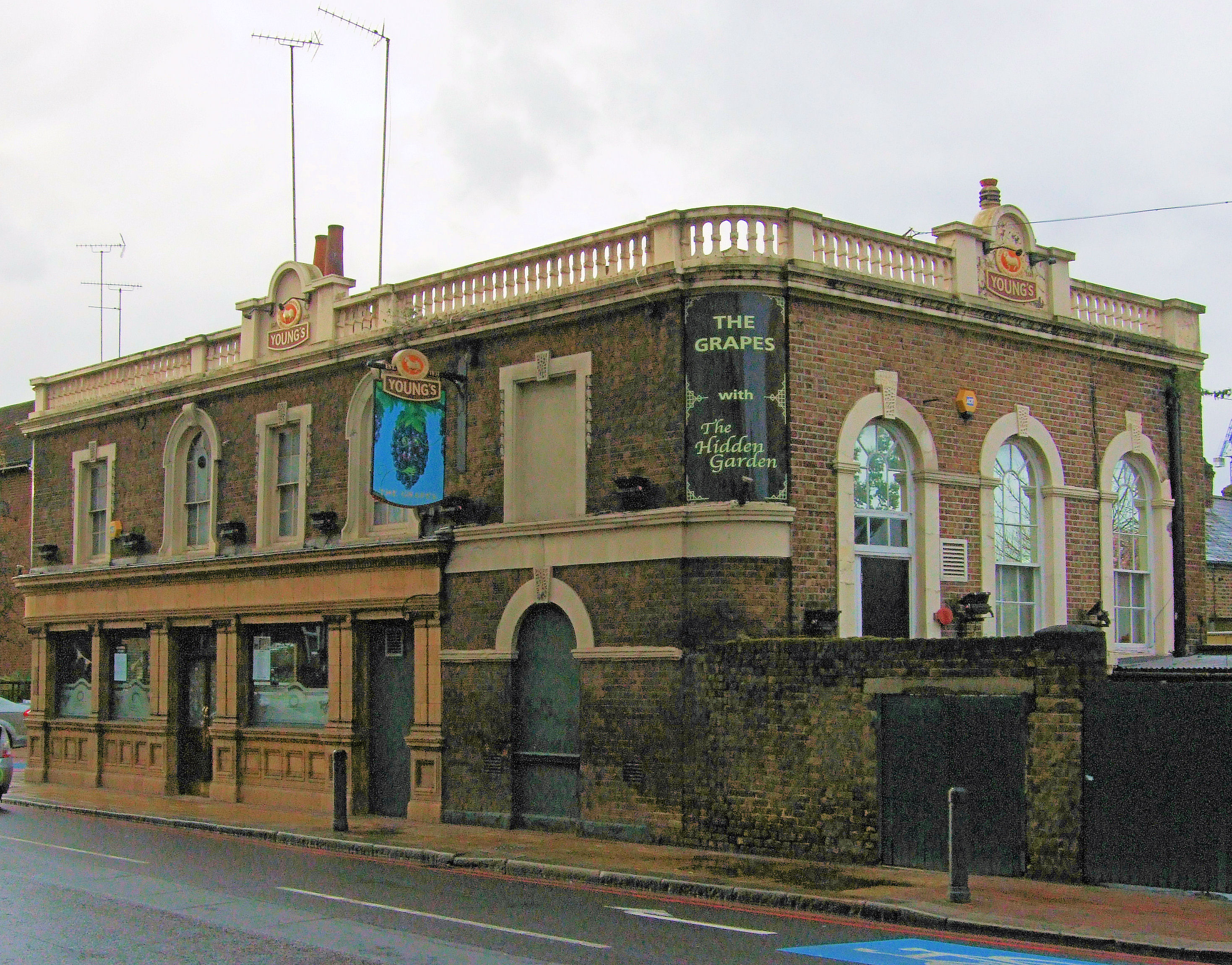 The Grapes Pub (With Hidden Garden), Wandsworth - London.